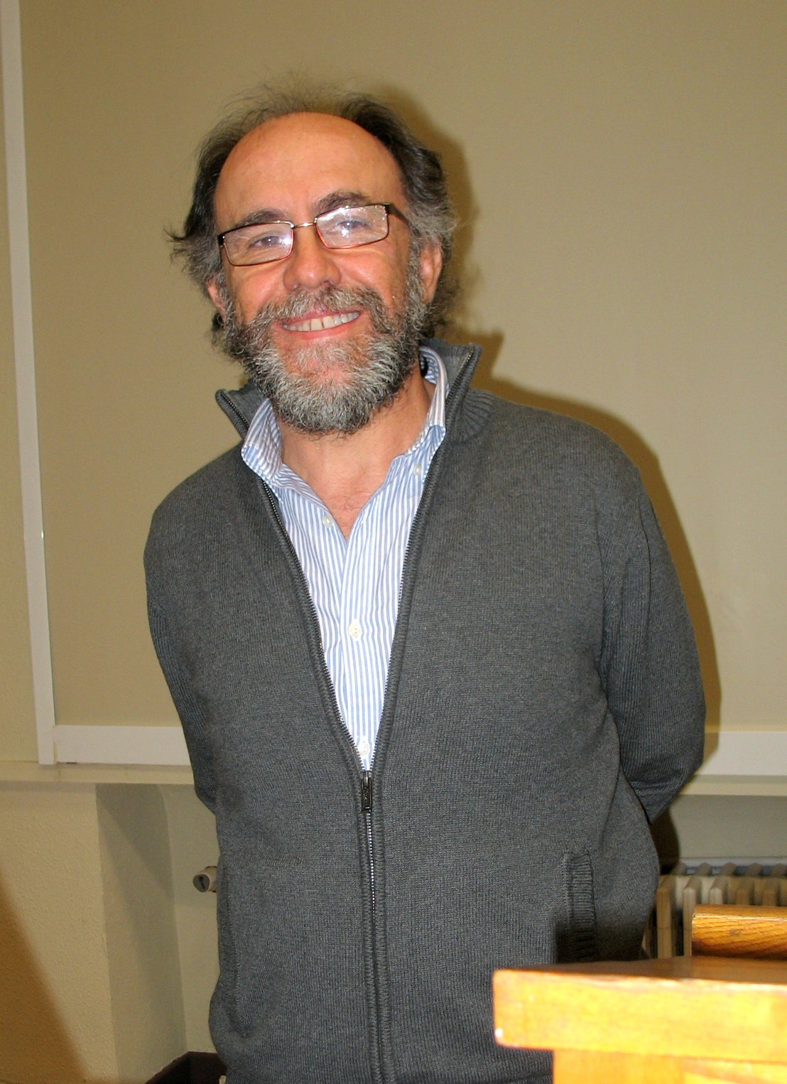 Mauricio Antón, Spanish paleoartist/illustrator specialized in the scientific reconstruction of extinct life. January 2019.